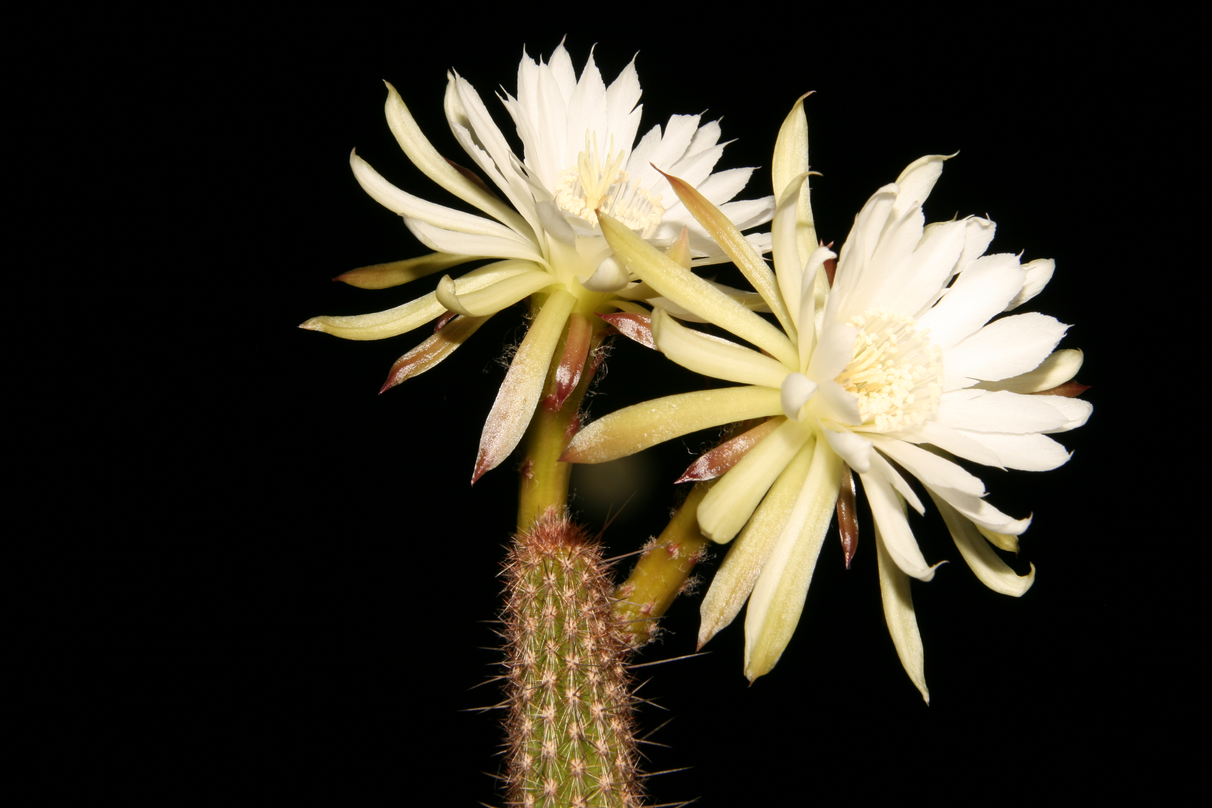 flowering plant from type locality, Minas Gerais, Brasil